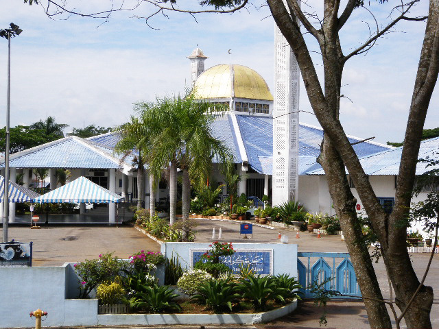 A photograph of Tengku Ampuan Afzan Mosque located in Bandar Indera Mahkota, Kuantan, Pahang, Malaysia.